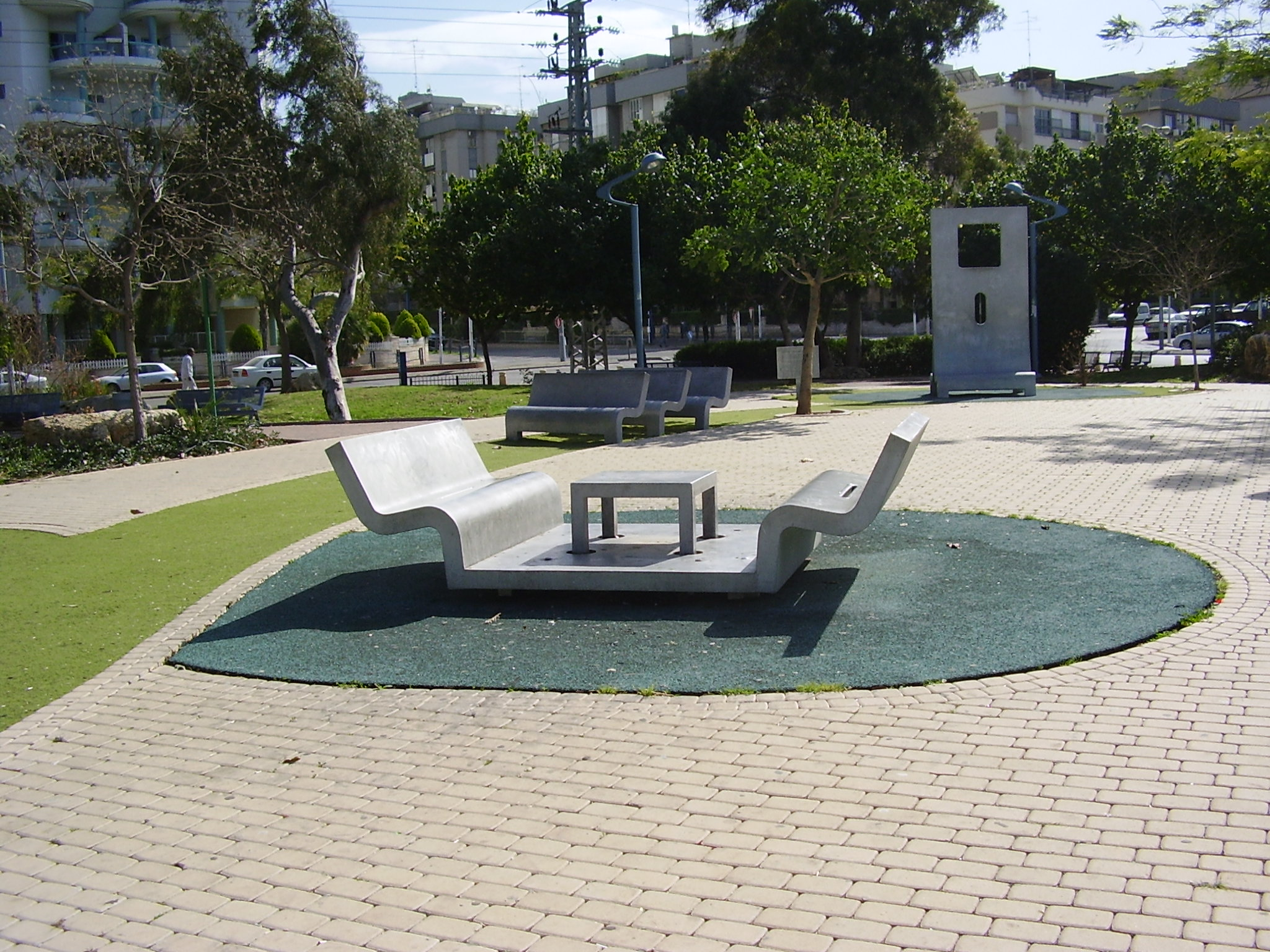 Story garden in Holon